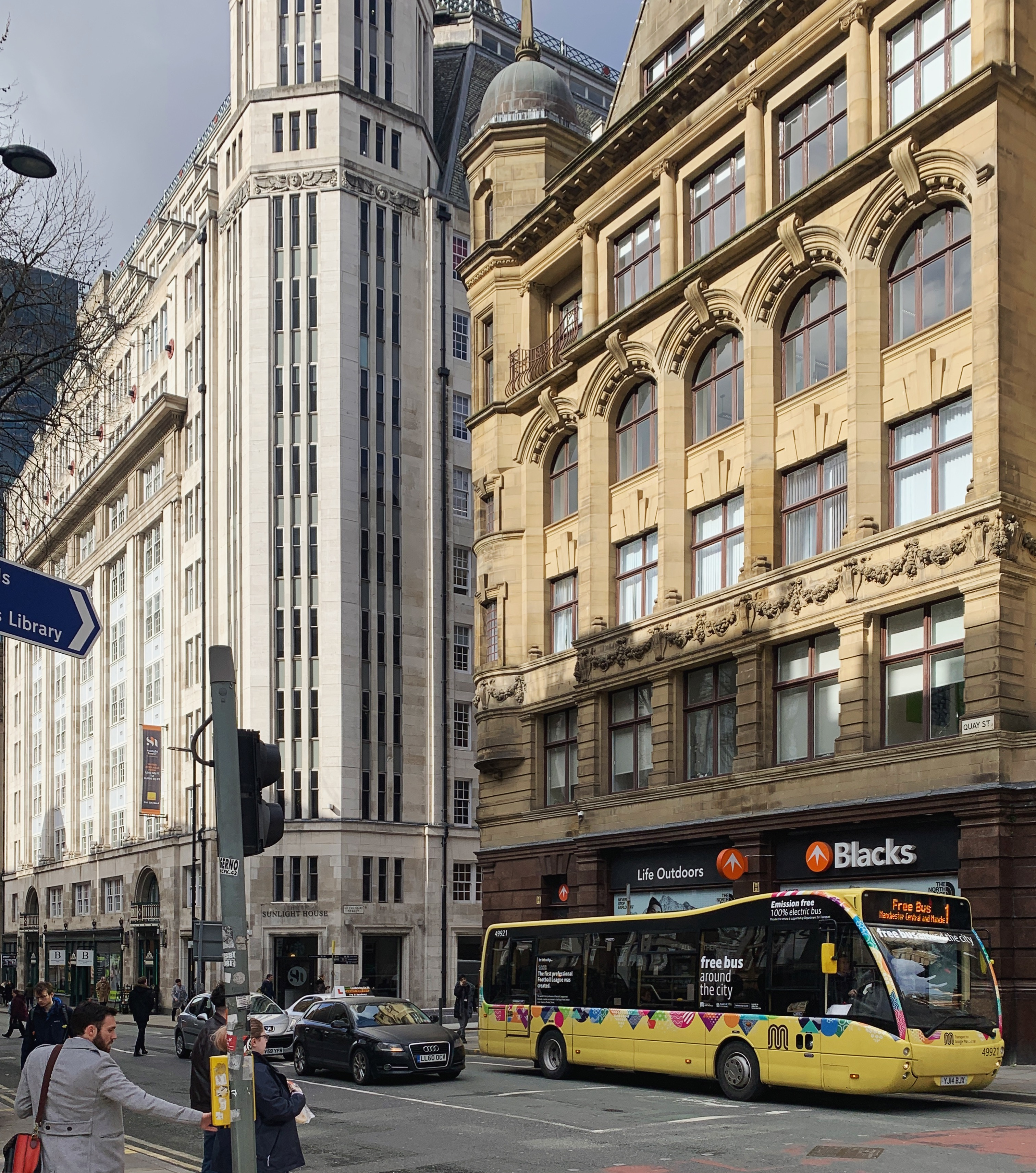 manchester free bus